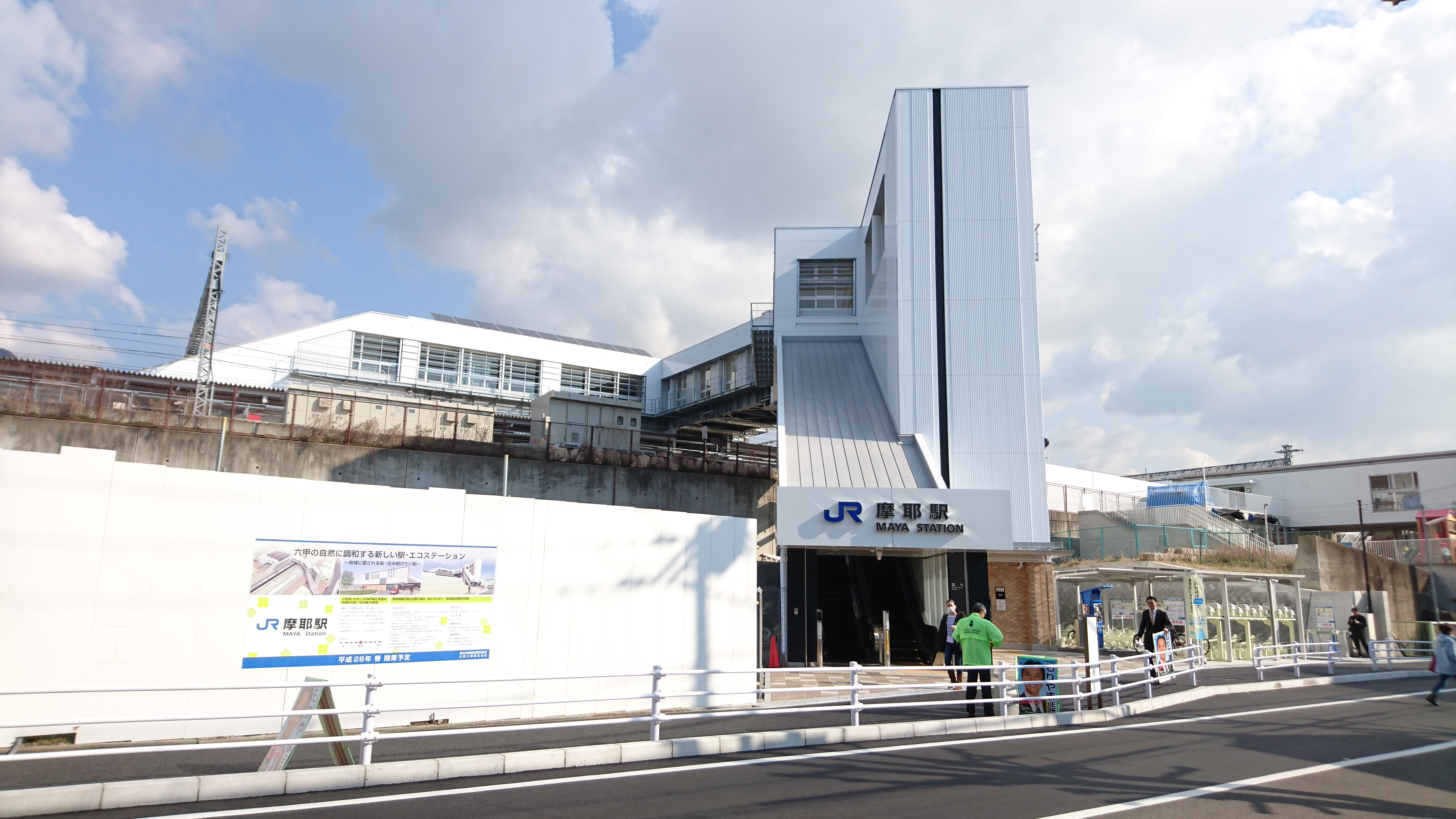 The south entrance of Maya Station